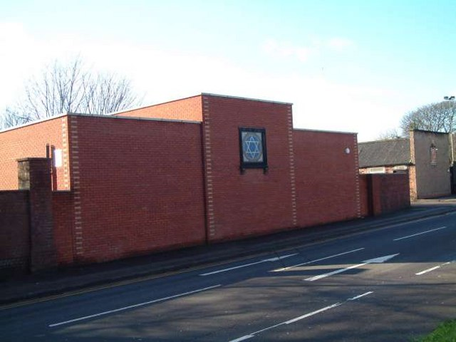 Stoke-on-Trent and North Staffordshire Hebrew Congregation, London Road (A34 road), Newcastle-under-Lyme, Staffordshire, seen from the east. Behind the synagogue is the Jewish cemetery.